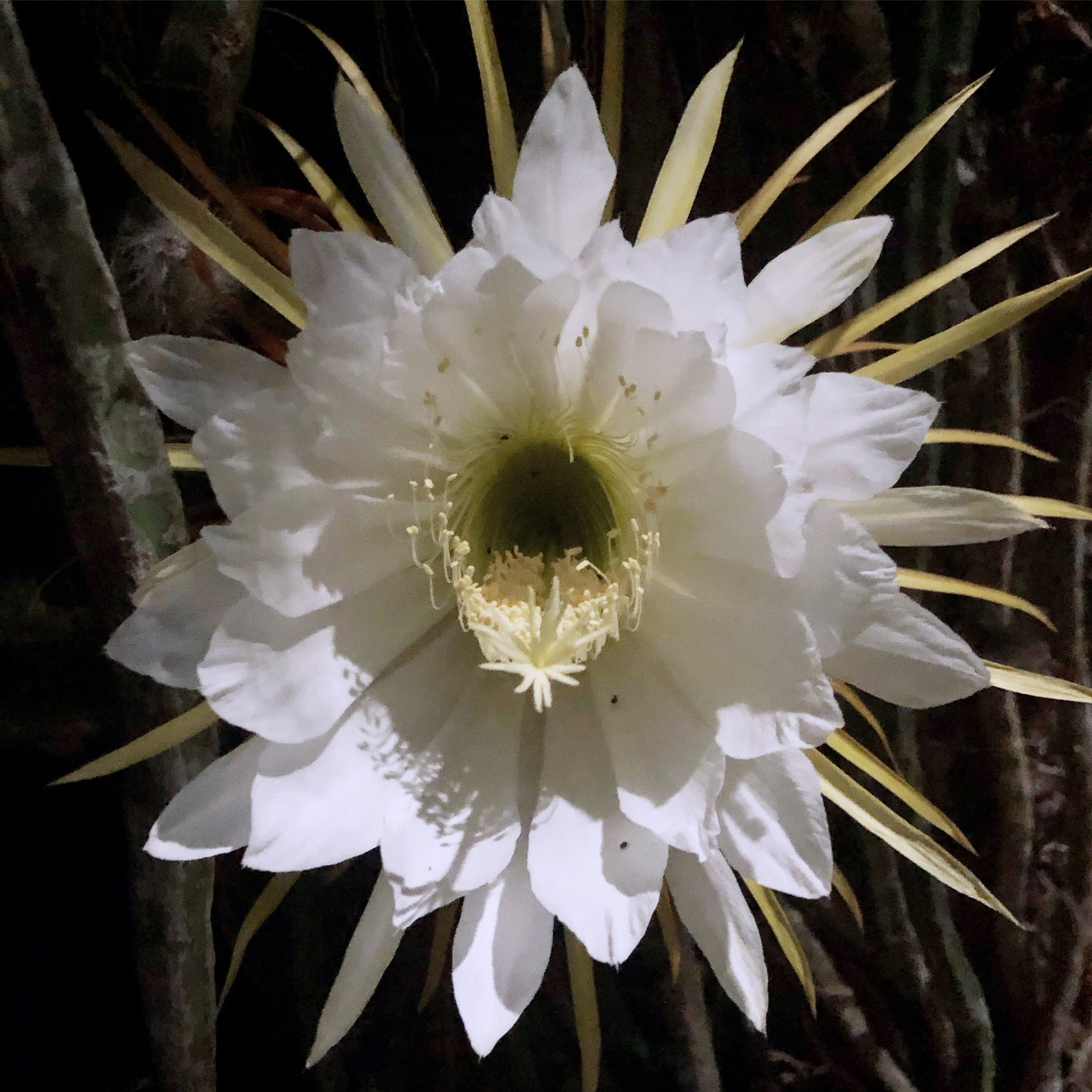 Flower cactus calceus night blooming